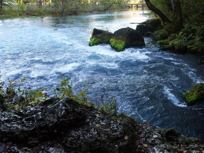 Big Spring in Missouri during low flow, about